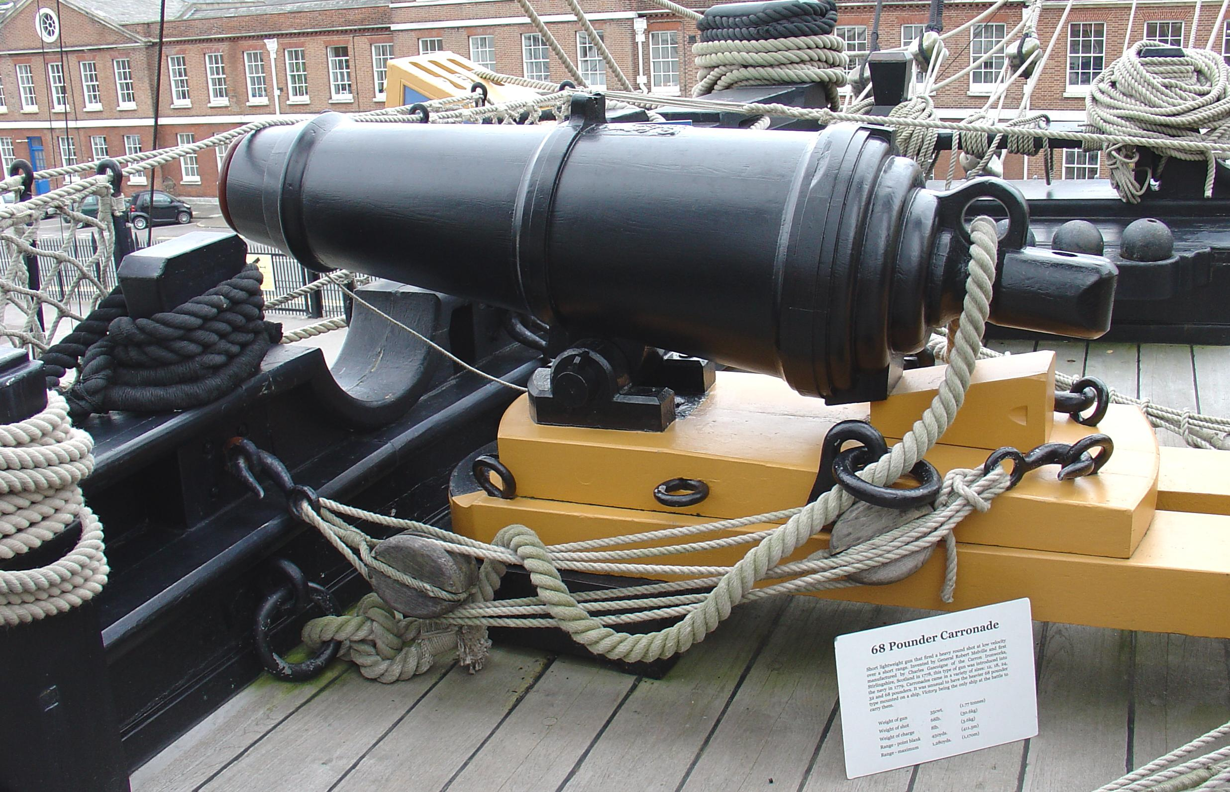 68-pounder carronade, with slider carriage, on the deck of HMS Victory at Portsmouth